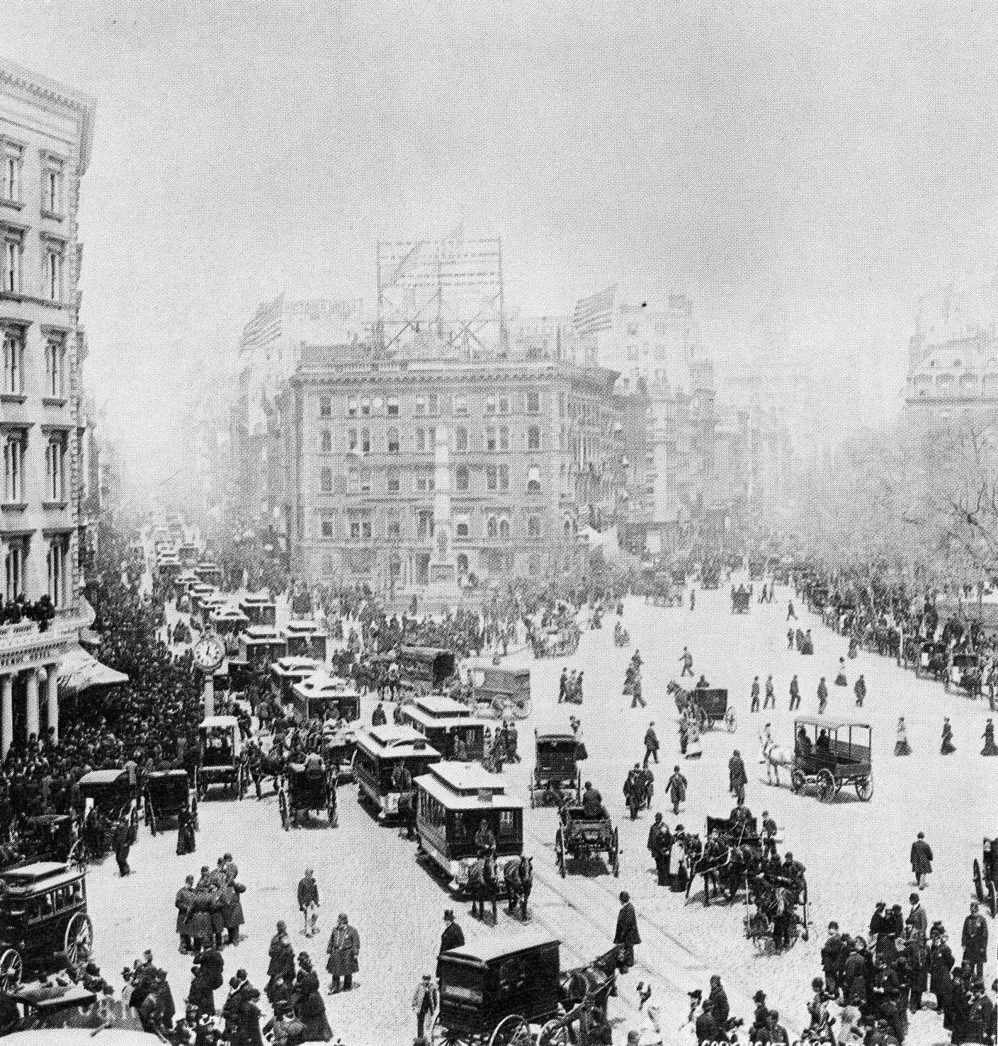 Photograph of Madison Square looking north, Manhattan, New York City, in 1893